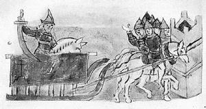 Depiction of the death of Saint Yaropolk